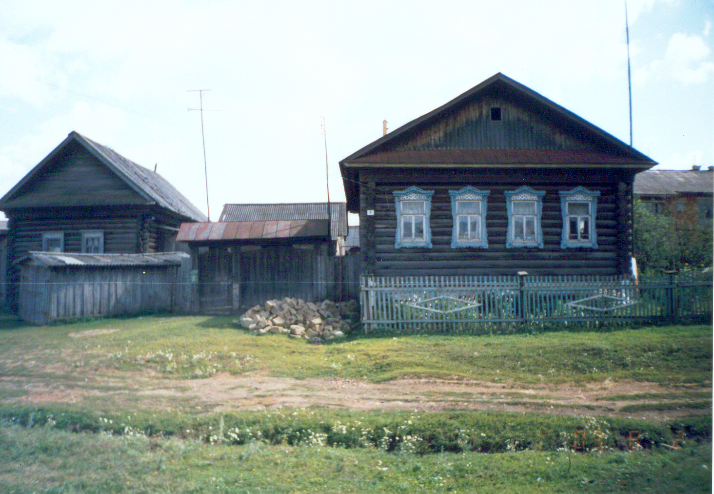 Udmurtian houses